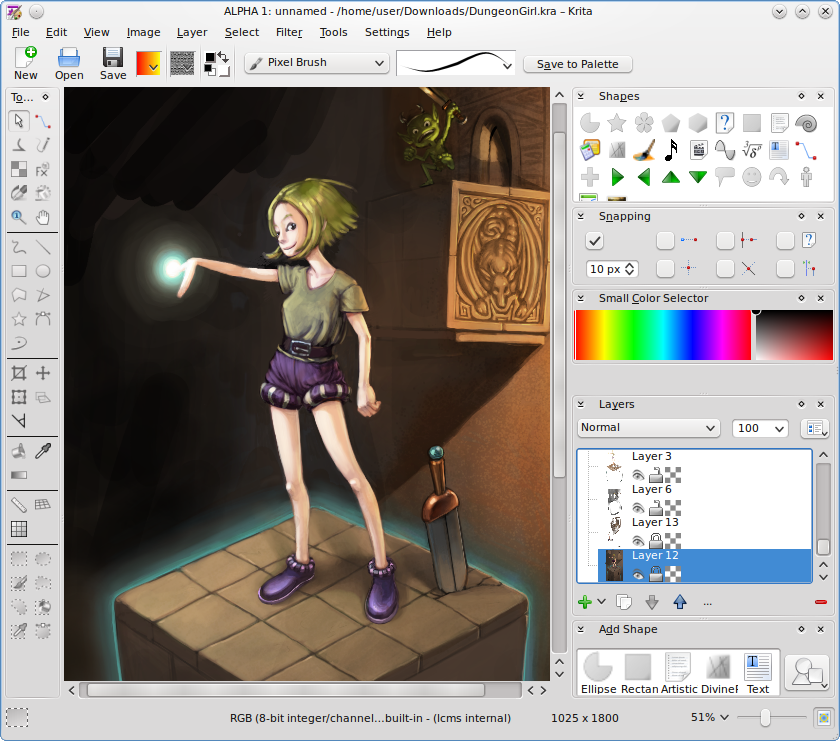 SVN Version of Krita just before version 2.2 alpha 1, showing the digital painting "Dungeon Girl" by enkithan. Full resolution version of this in it's original .kra Krita file format is available under creative commons CC-BY from .